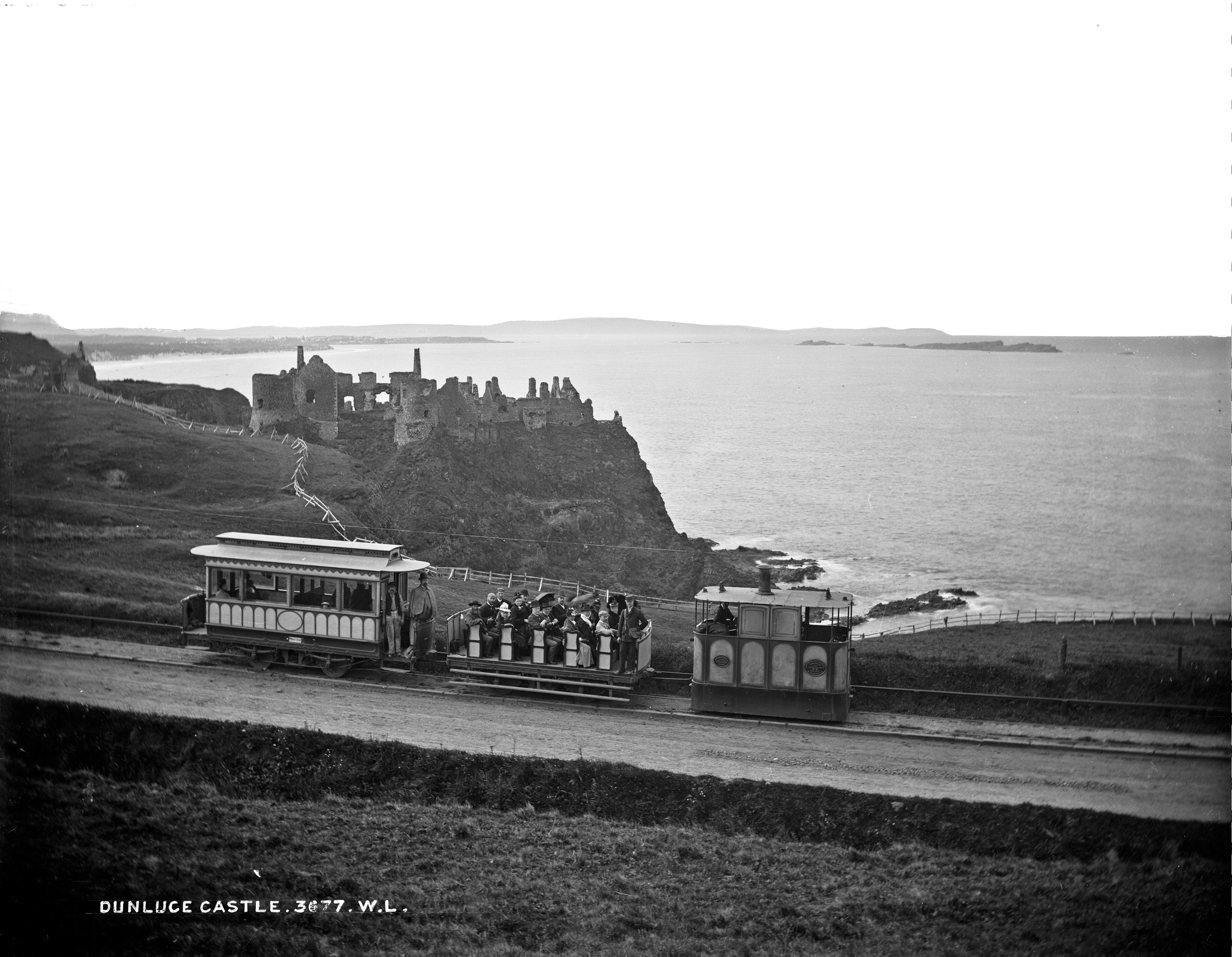 Dunluce Castle & Giant's Causeway Tram